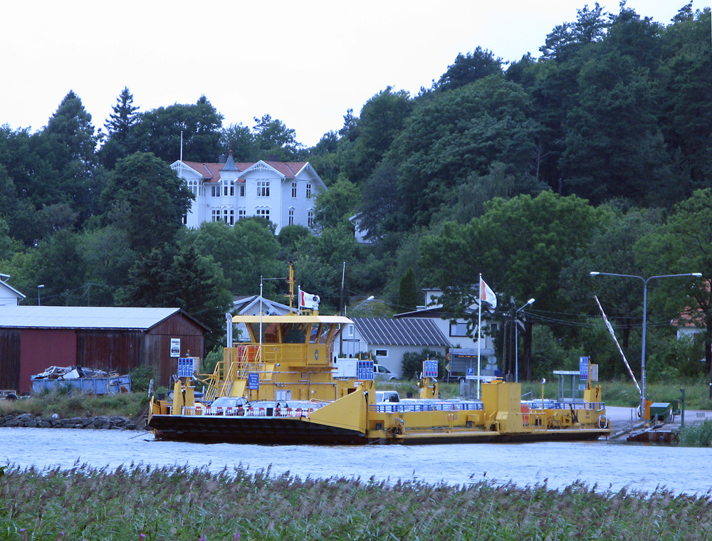 Kornhall Ferry, Sweden